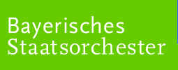 This is a logo for Bavarian State Orchestra.